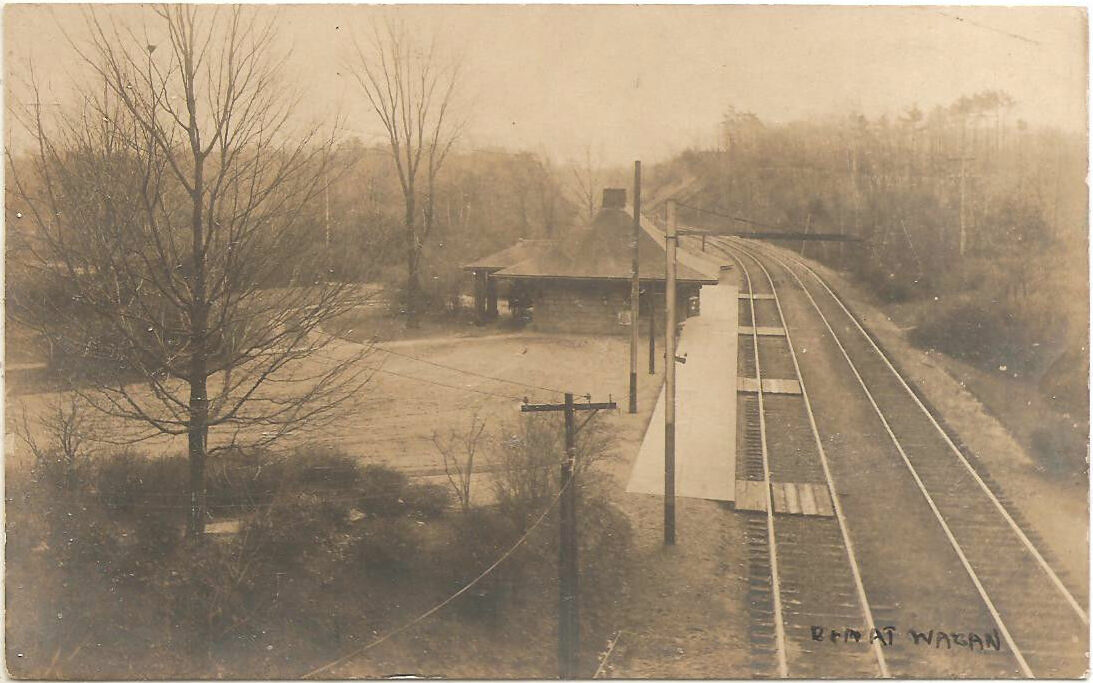 1907 undivided back postcard of Waban station